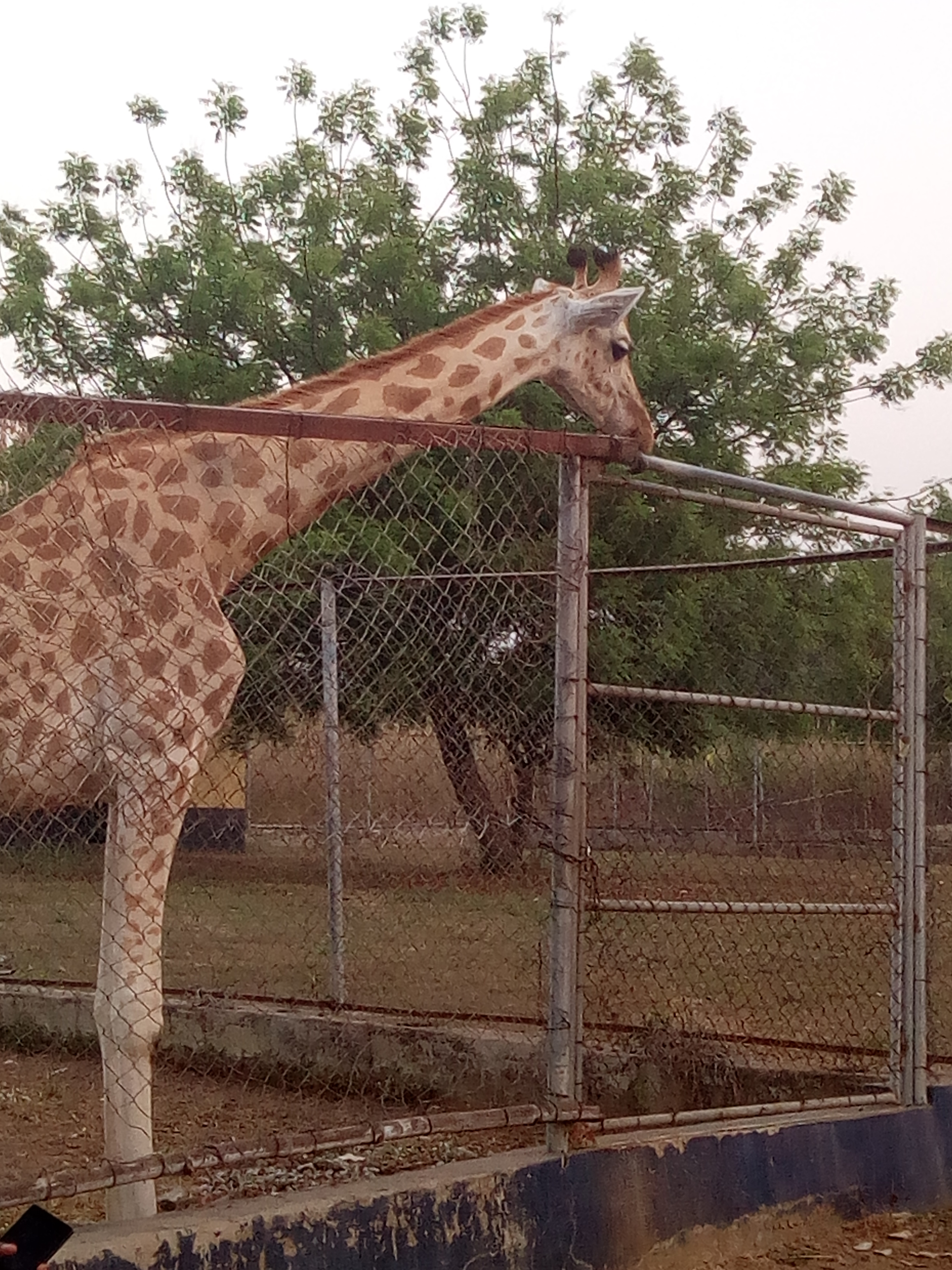 This is an image from Nigeria